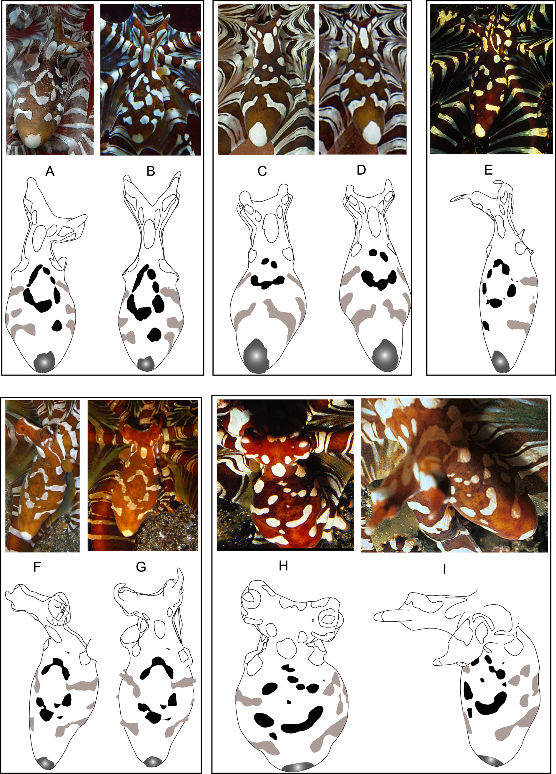 Original caption: "Figure 2. Configuration of white markings on the dorsal mantle of five individual Wunderpus photogenicus. Outlines indicate which photographs were taken of the same individual. Underneath each photograph is the corresponding outline of mantle markings: central white spots in black, side markings in grey, posterior mantle spot grey with faded center. [photographs by: A–D. Richard Ross (animals A–B and C–D each from the home aquarium trade); E. Takako Uno (North Sulawesi, Indonesia); F.–G. CLH (North Sulawesi, Indonesia); H–I. Roy Caldwell (North Sulawesi, Indonesia).]"